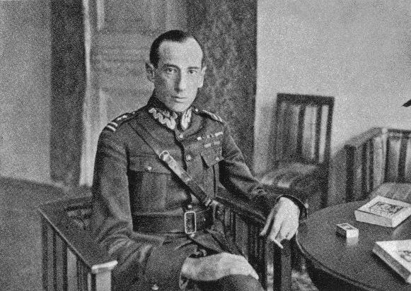 Józef Beck in 1926. Photo published in Gazeta Polska and Światowid.